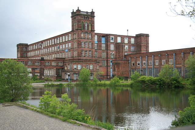 Mutual Mill - No. 3 mill, in Heywood, Greater Manchester, England. Dated 1914 although not completed until 1923. Photographed across the surviving mill lodge/dam. The complex is Grade II listed.